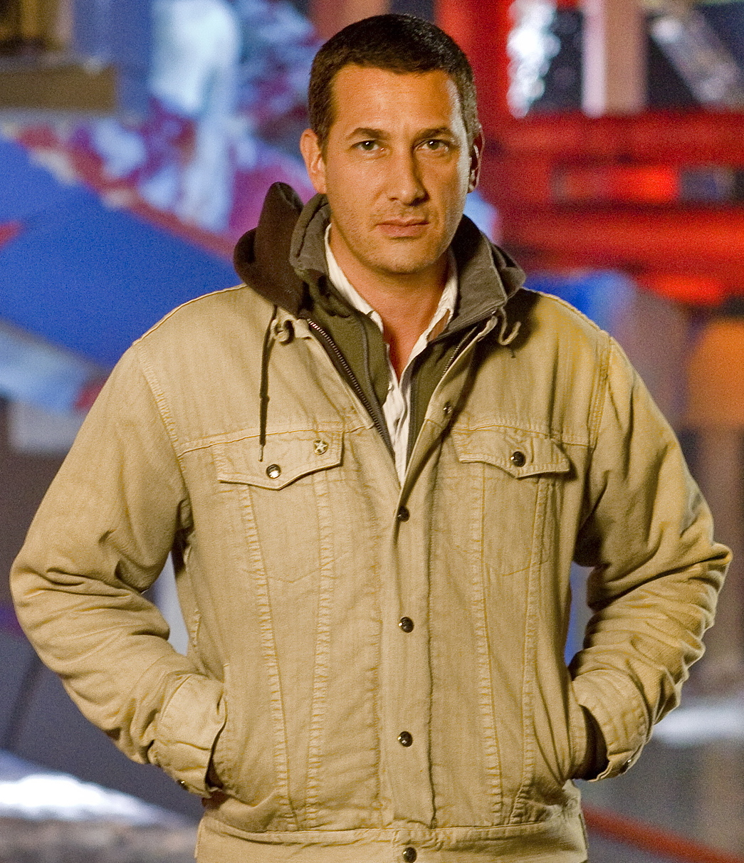 Photograph of the Executive Producer and Creator of Wipeout, Matt Kunitz, on the set of Wipeout. Wipeout